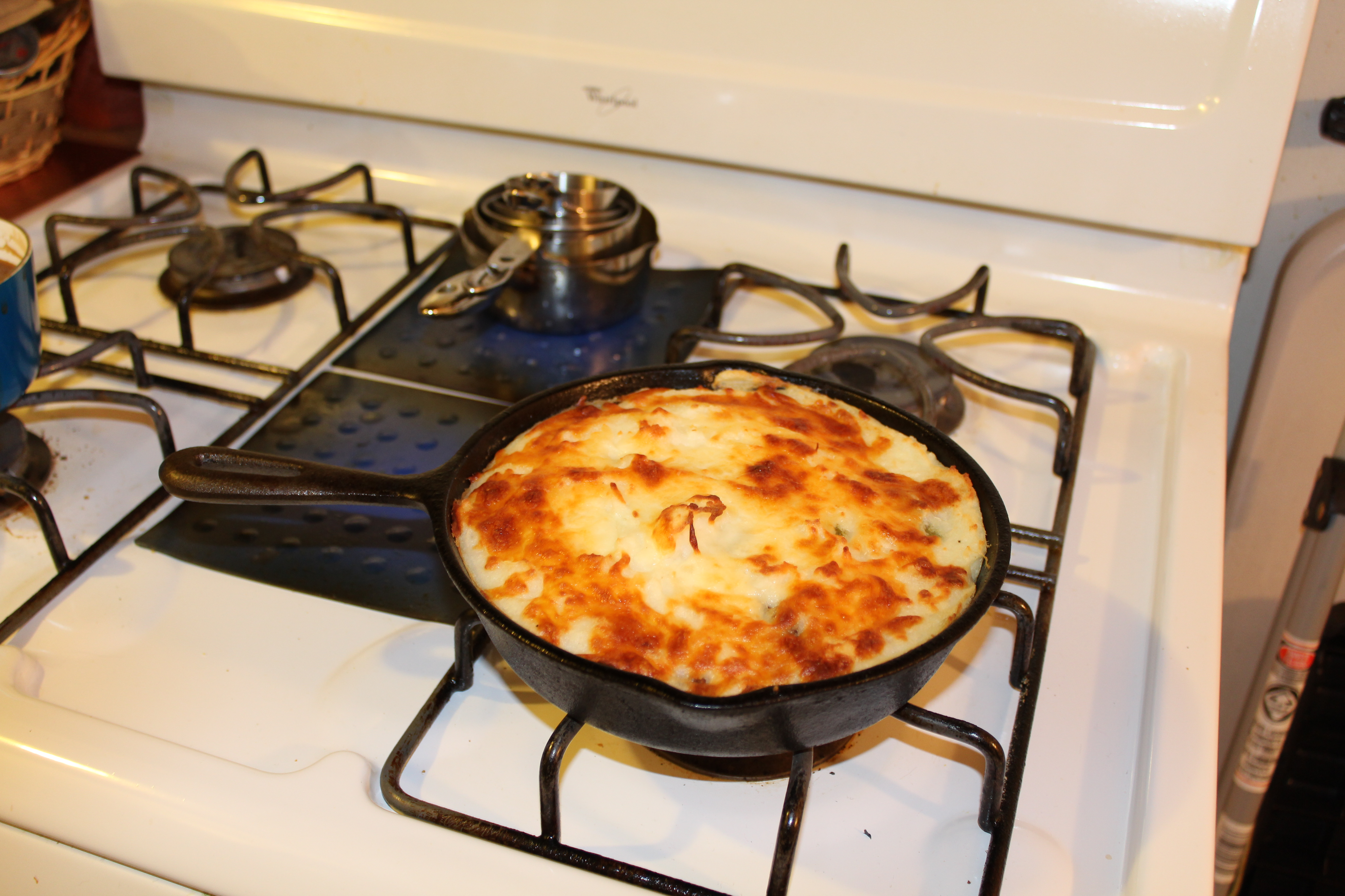 Shepherd's Pie with a mozzarella cheese topping.